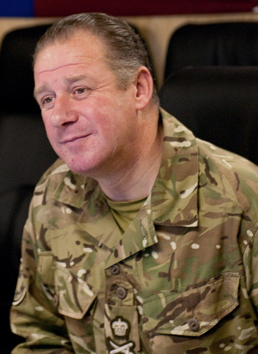 Lt. Gen. James Bucknall, deputy commander of NATO and International Security Assistance Forces in Afghanistan, went on his first battle field circulation, Sept. 25-28. Bucknall visited Provisional Reconstruction Teams in the Afghan provinces of Konduz, Balkh, Faryhab, and Wardak. Through PRTs, ISAF supports reconstruction and development in Afghanistan, securing areas in which reconstruction work is conducted by other national and international actors. Currently, there are 26 PRTs operating through Afghanistan. (Photo by U.S. Navy Chief Petty Officer Joshua Treadwell) (Released)